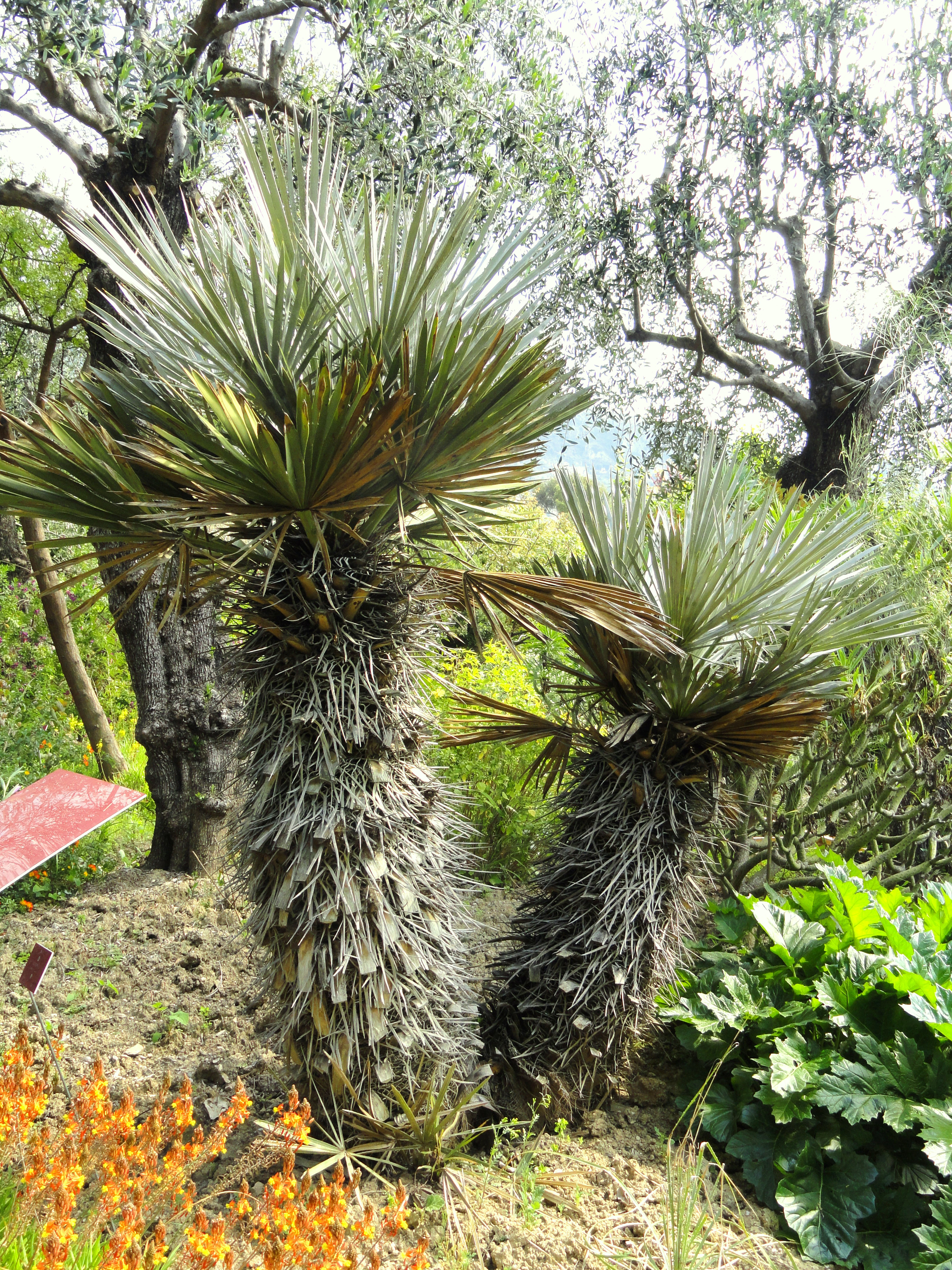 Trithrinax campestris specimen in the Jardin botanique du Val Rahmeh, Menton, Alpes-Maritimes, France.